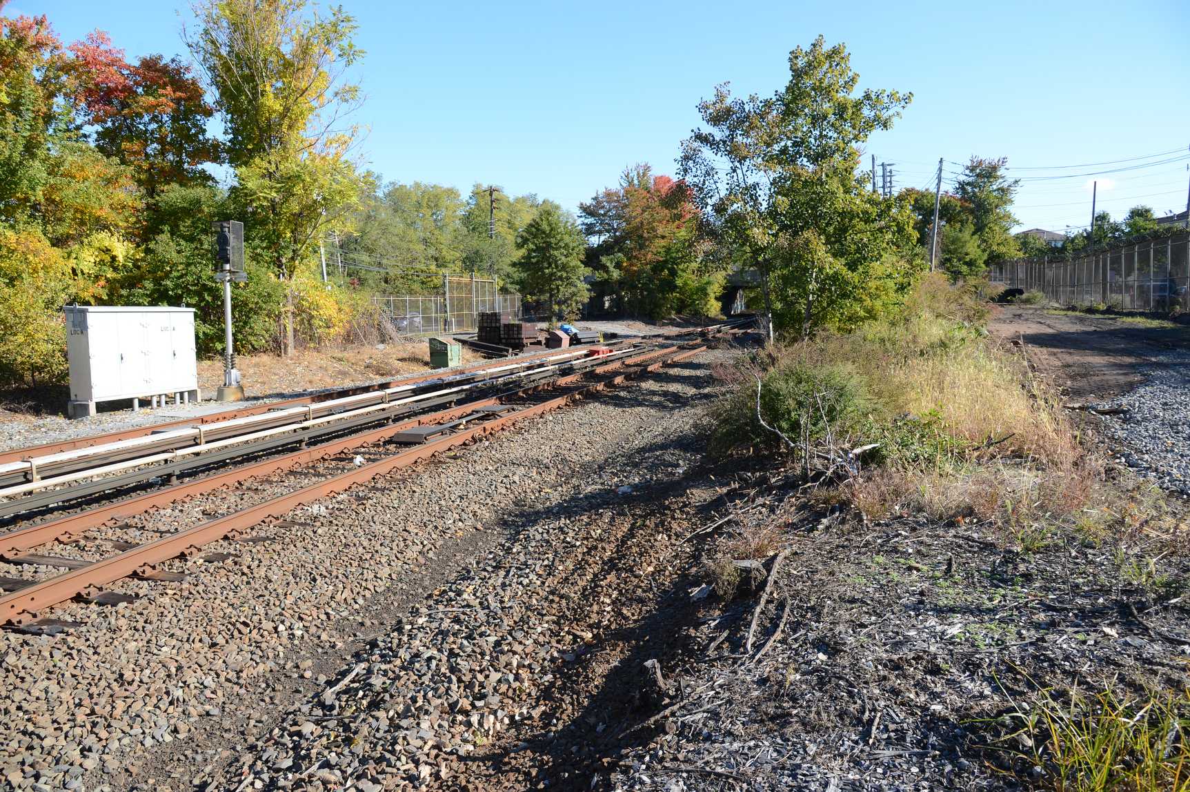 Scene of tracks at a groundbreaking ceremony on the site of the future Arthur Kill Station. The station, which is scheduled to be completed in 2015, will replace two others, Nassau and Atlantic, which are deteriorating and can only accommodate one train car. A unique feature of the station will be a 150-car parking lot, to be built across the street, the first such lot on the system. Photo: Marc A. Hermann / MTA New York City Transit